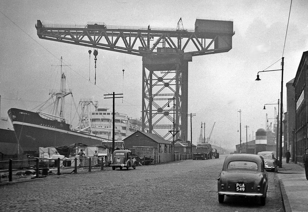 Stobcross Quay and the Finnieston Crane. Govan, Glasgow, Great Britain. View westward: a symbolic view of Glasgow as a busy port and shipbuilding centre - back in 1957.